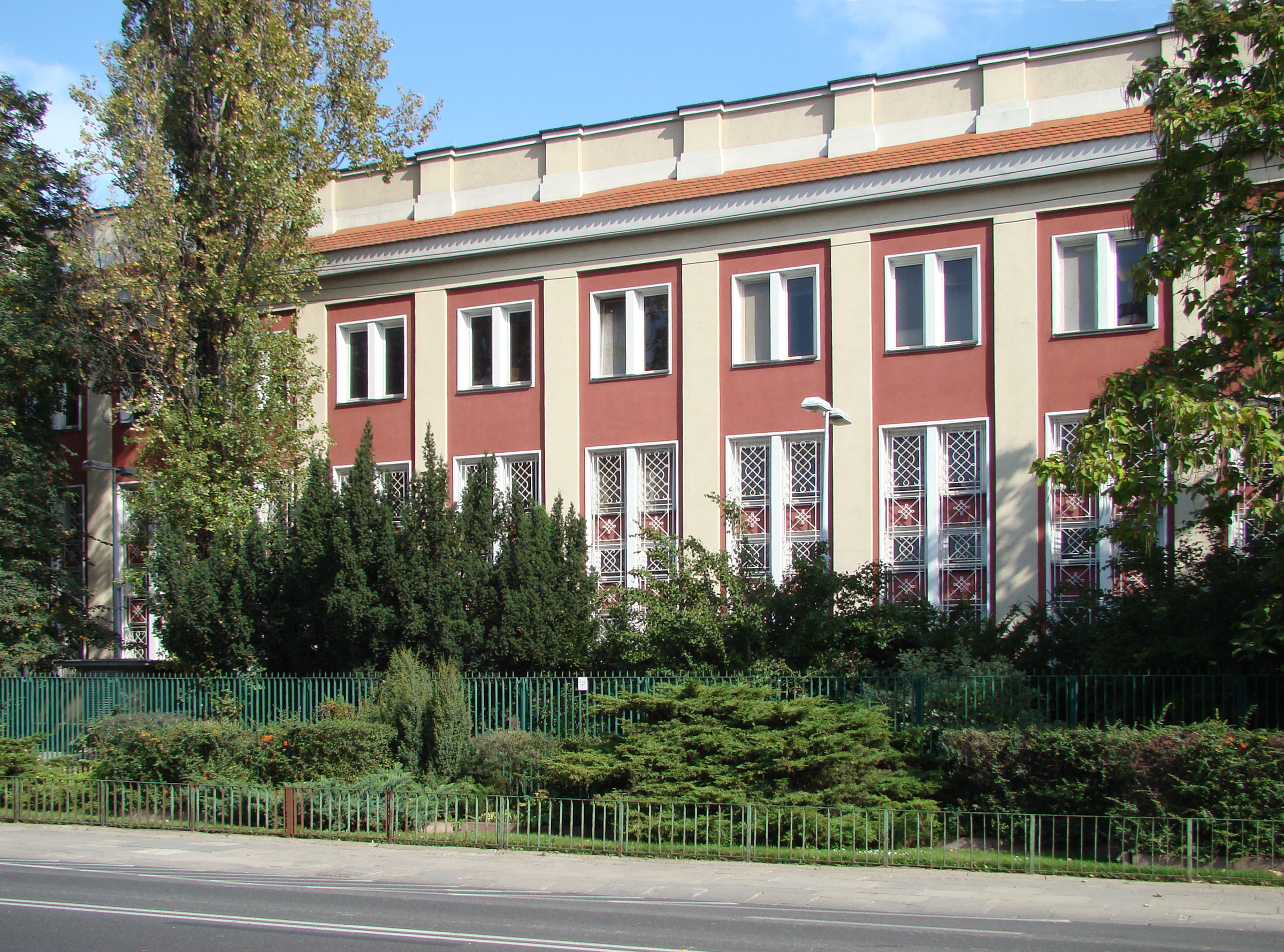 State Mint in Warsaw - old building, Żelazna St., destroyed 2014